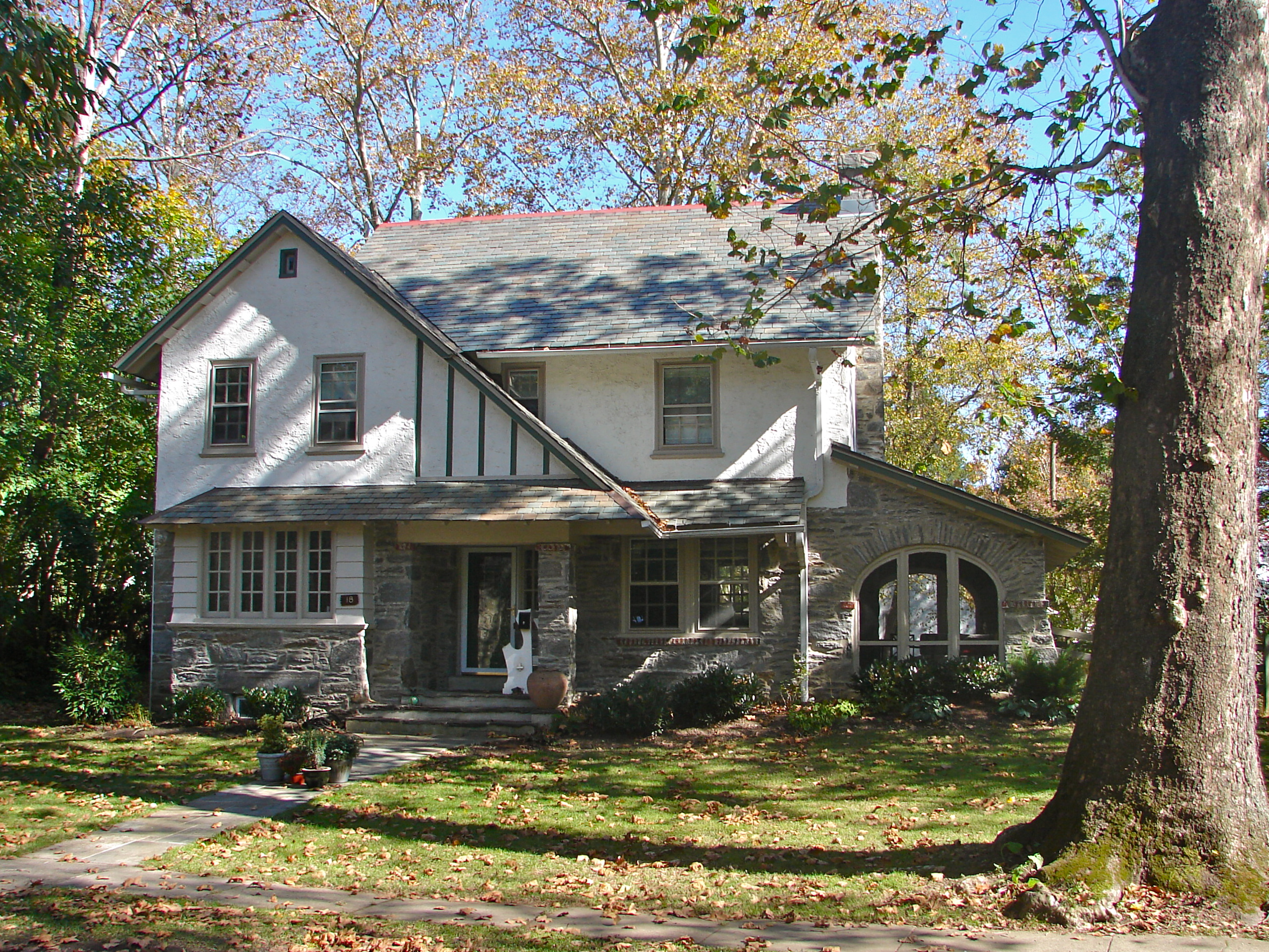 House at 18 Narbrook Road in the Narbrook Park Historic District, on the NRHP since November 7, 2003. The district is entered at Narbrook Road and Windsor Avenue, and extends a block or so north, in Narberth, Montgomery County, Pennsylvania. An early "Garden City" suburb.